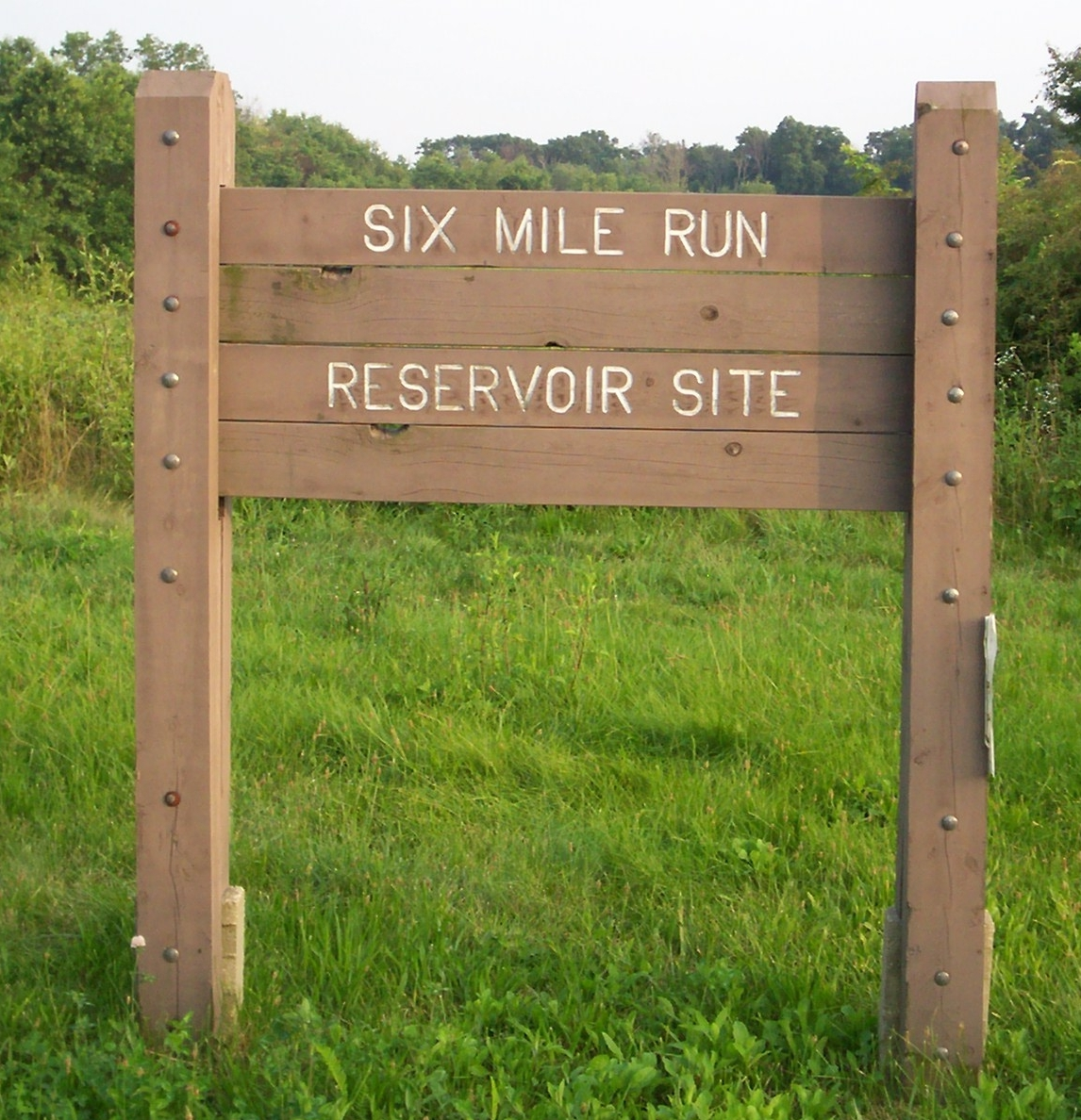 Six Mile Run Reservoir sign at Blackwell Mills Road and Van Cleef Road.